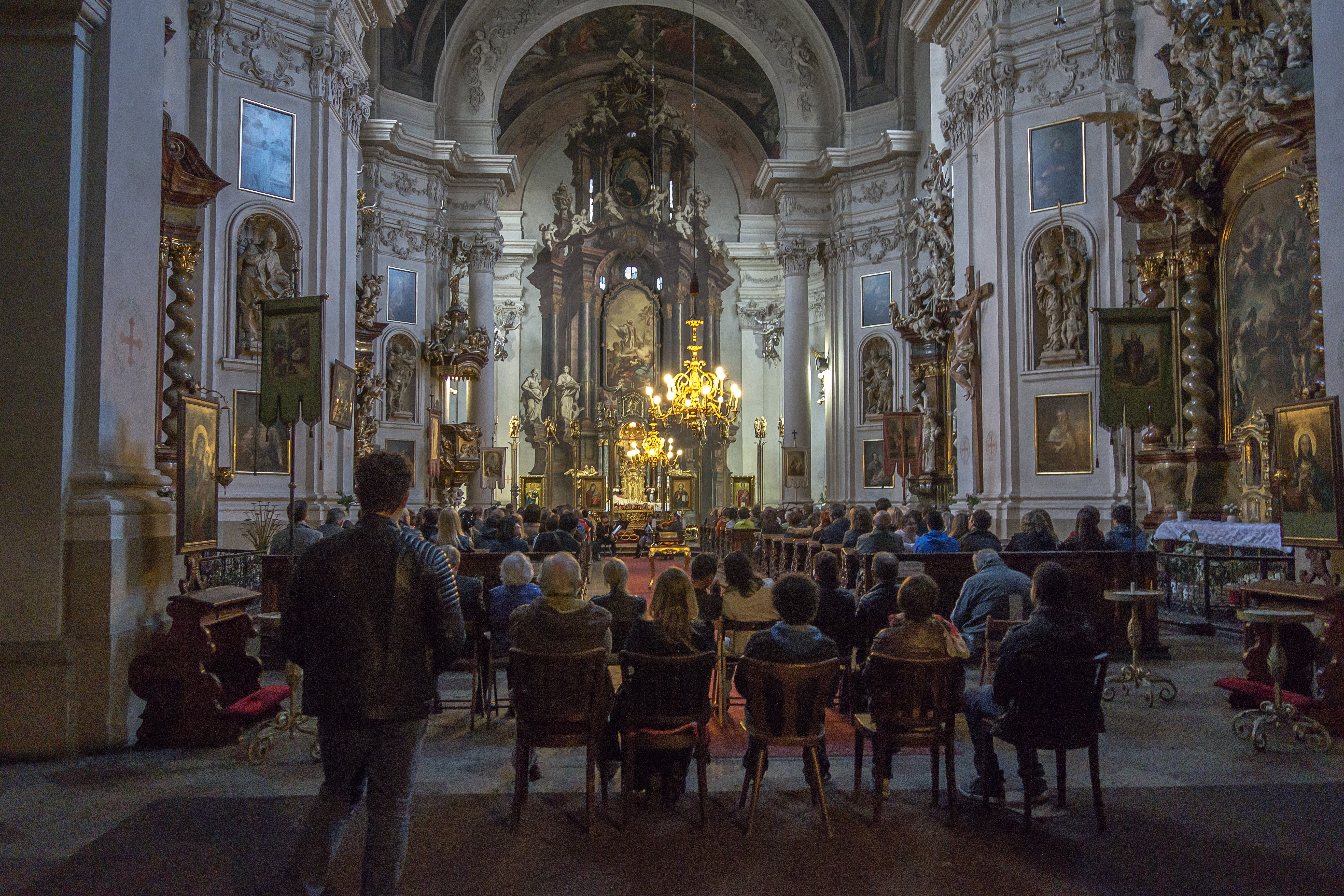 Church of Saint Clemens in Old Town, Prague